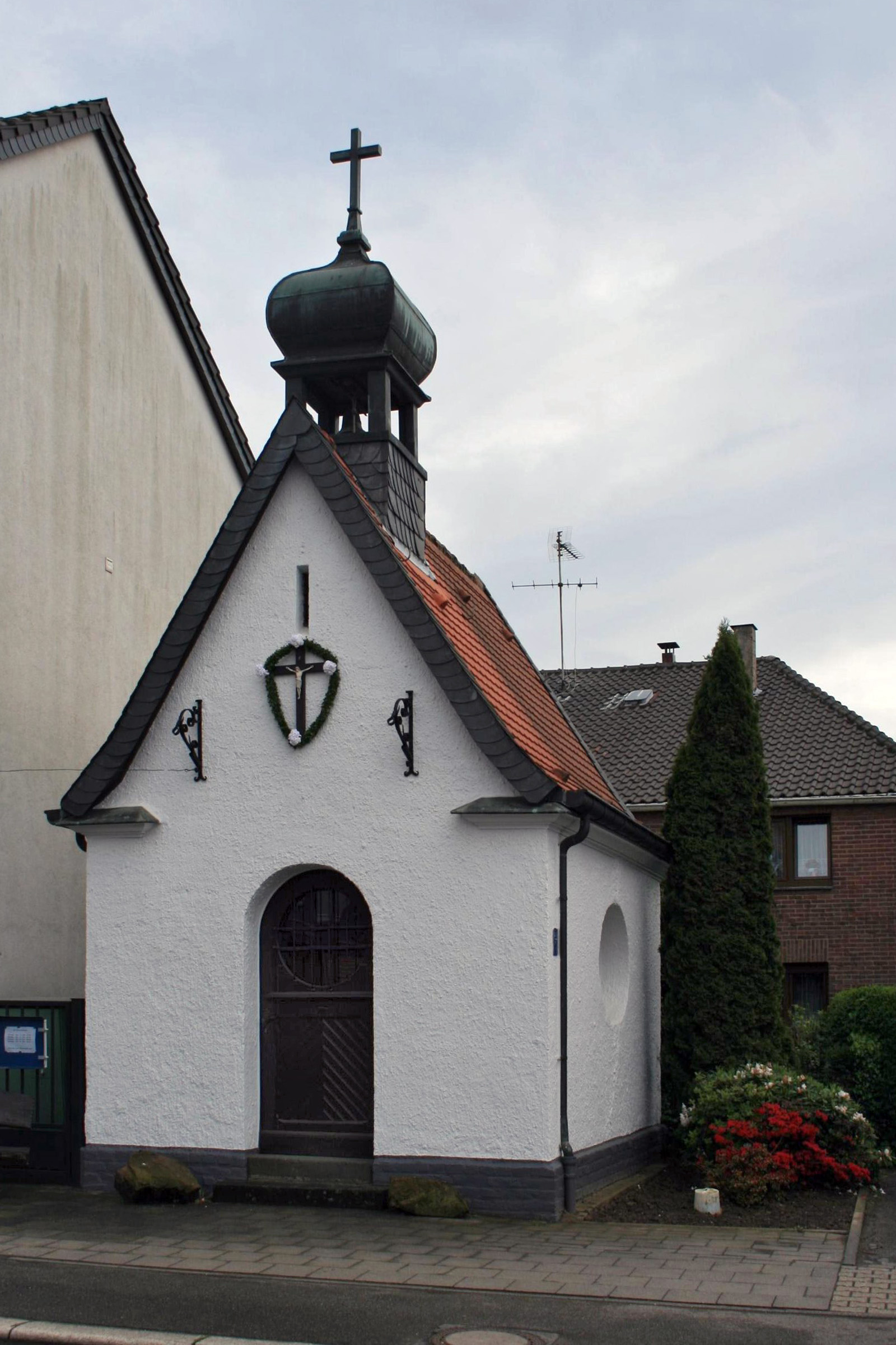 Cultural heritage monument No. T 007 in Mönchengladbach